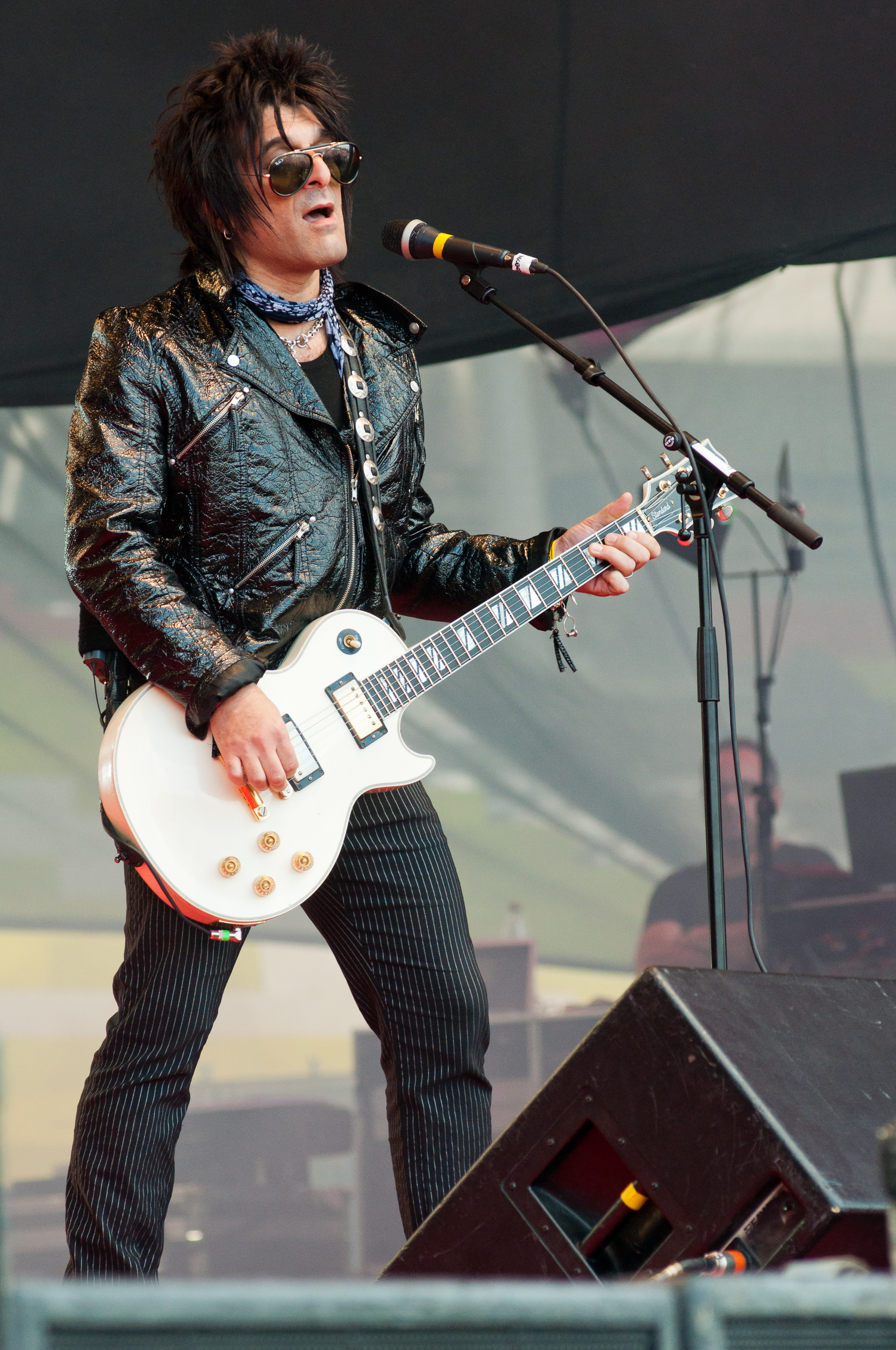 American guitarist Steve Conte performing at the 2011 Ilosaarirock festival in Joensuu, Finland with Michael Monroe.